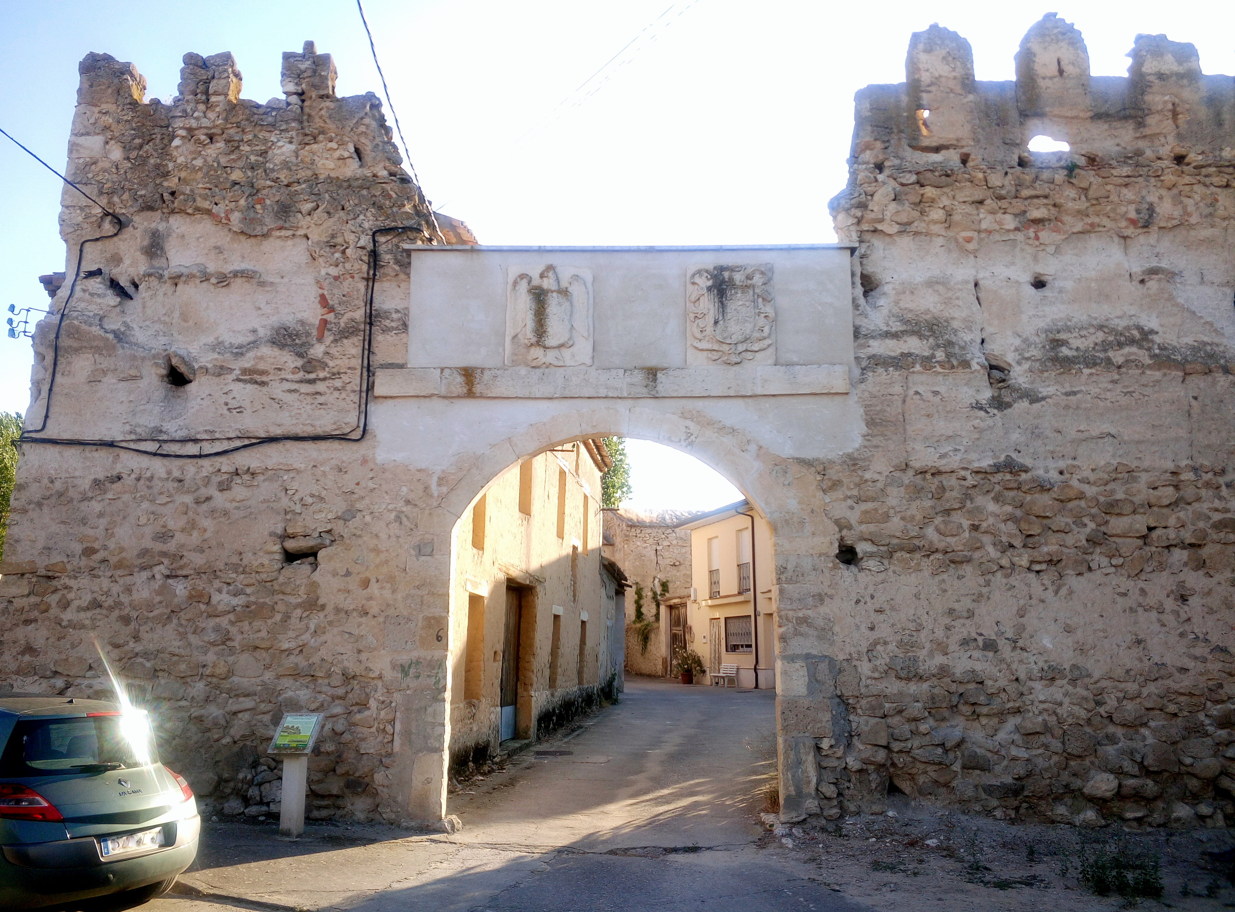 Palace of the Contreras or Palace of the Counts of Cobatillas, Laguna de Contreras, Segovia, Spain.